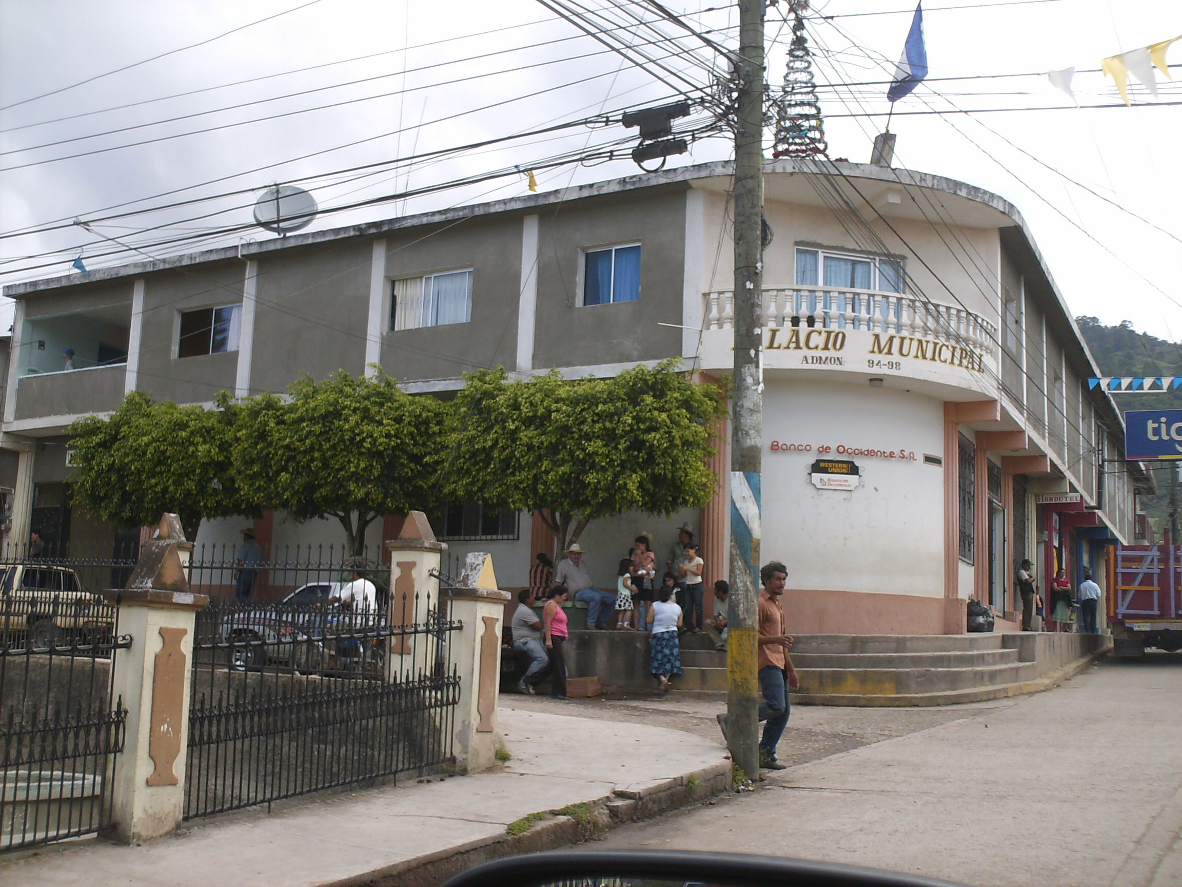 Lepaera, municipality in the Honduran department of Lempira.